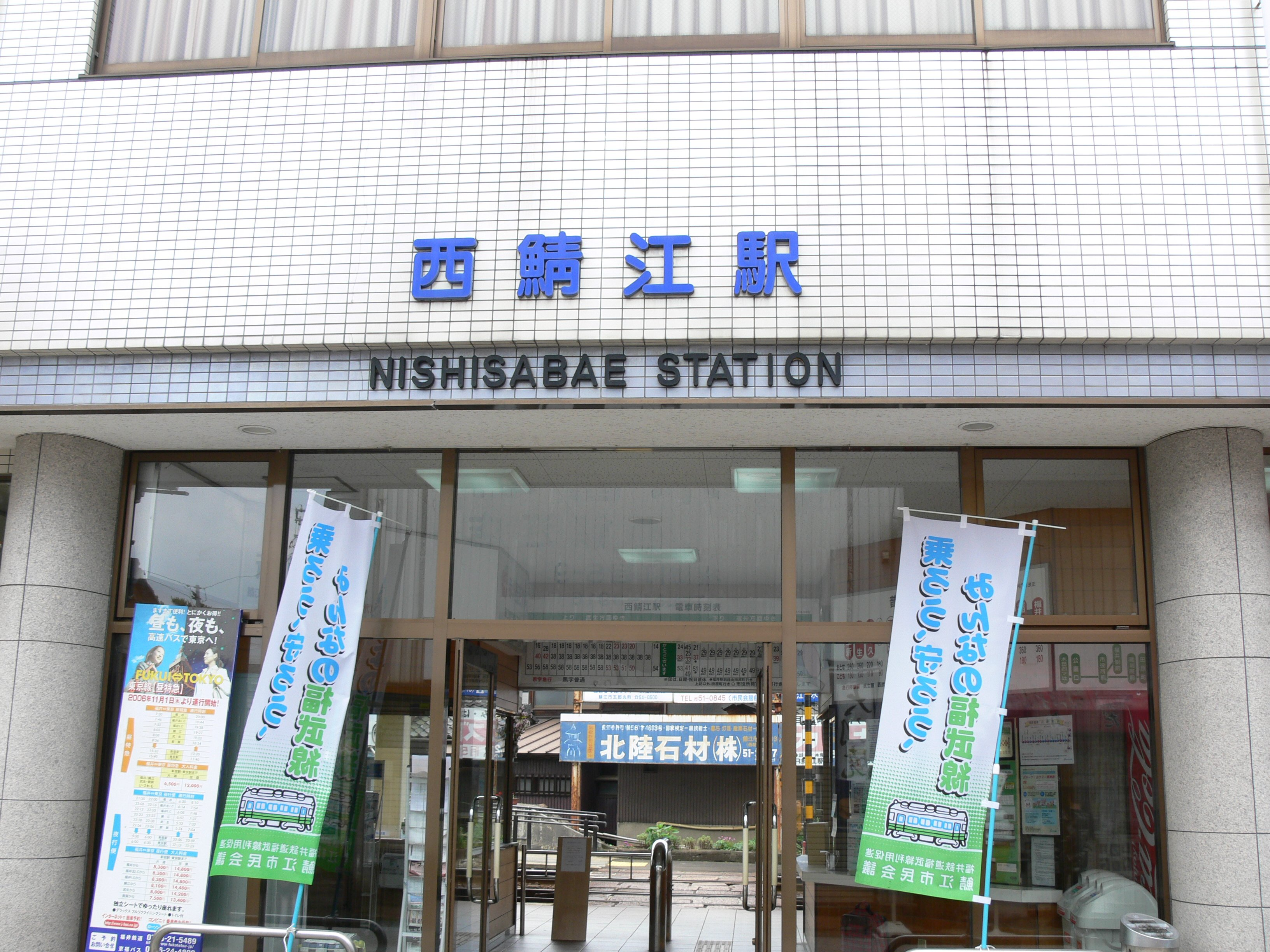 Nishi-Sabae Station 西鯖江駅 駅舎